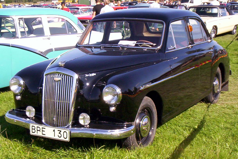 Wolseley 4/44 4-Door Saloon 1954